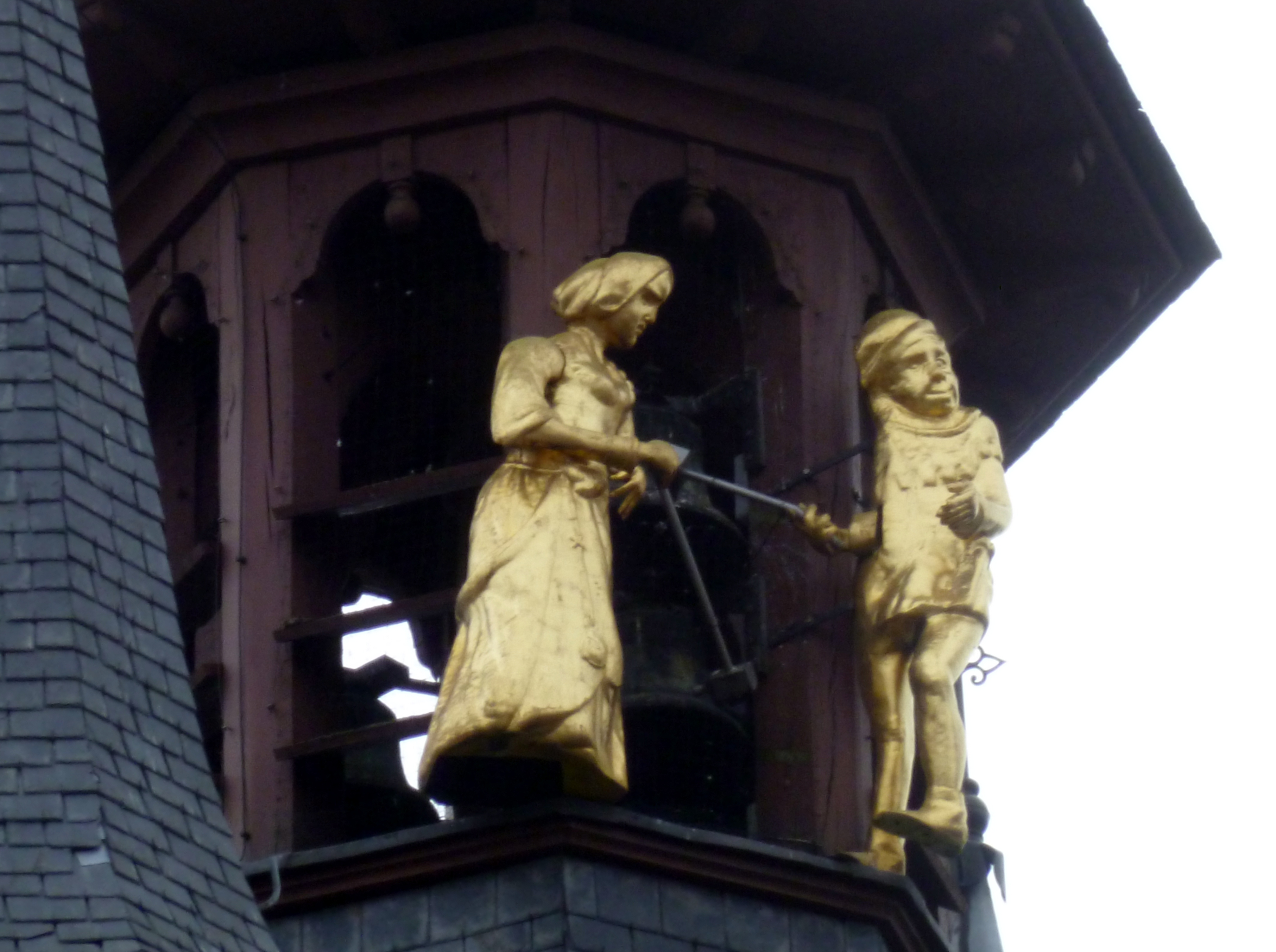 Manten and Kalle, the bell-ringers on top of the Belfry of Courtrai, Belgium